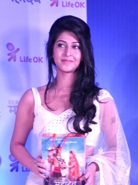 SonarikaBhadoria at DVD launch of 'Devon Ke Dev Mahadev'